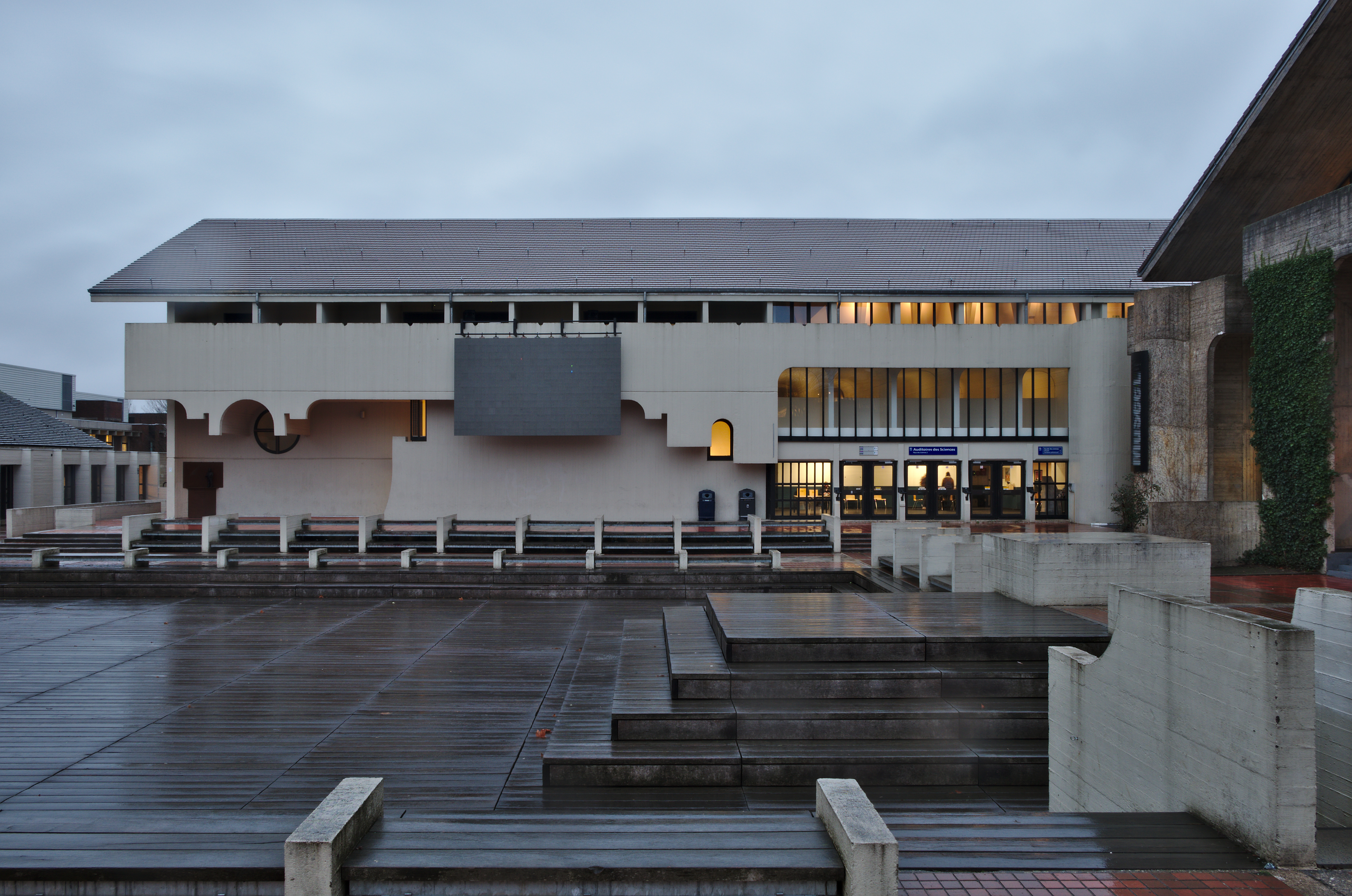 Auditoires des Sciences and Place des Sciences photographed on a drizzly evening in December (Ecole Polytechnique de Louvain, Ottignies-Louvain-la-Neuve, Belgium)